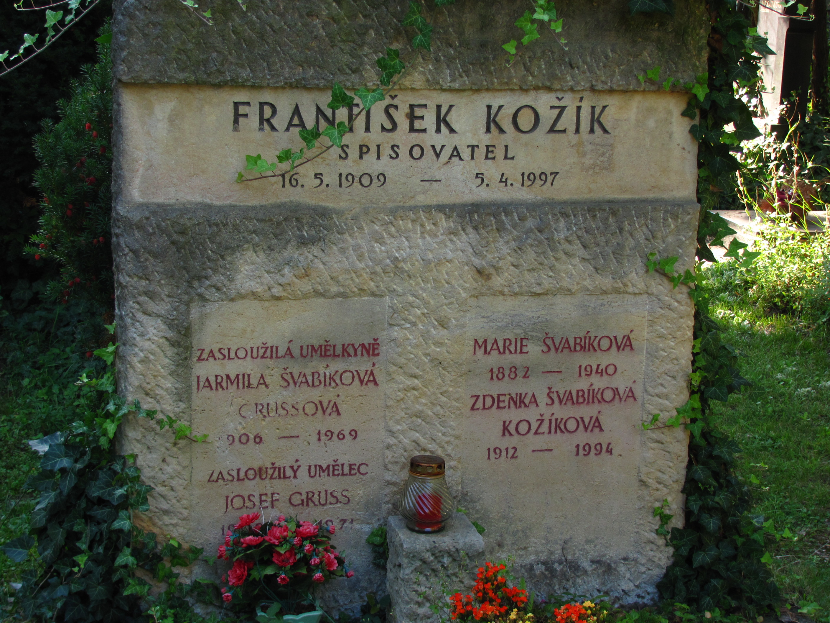 Family tomb at Vinohrady Cemetery in Prague